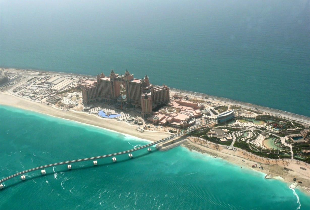 This is a photo showing the completion of Atlantis The Palm, located on the Crescent of the Palm Jumeirah in Dubai, United Arab Emirates, on 8 May 2008. The area on the right is the water park that is a part of Atlantis. Crossing the water is a viaduct for the Palm Jumeirah Monorail. This photo was taken from a helicopter ride courtesy of Nakheel.